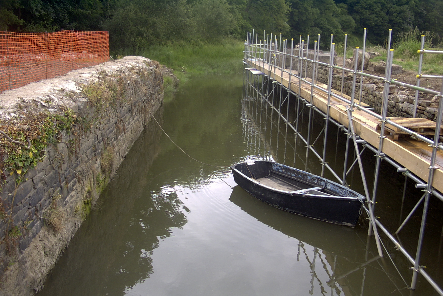 Sea lock on rolle canal. Photo taken by me.